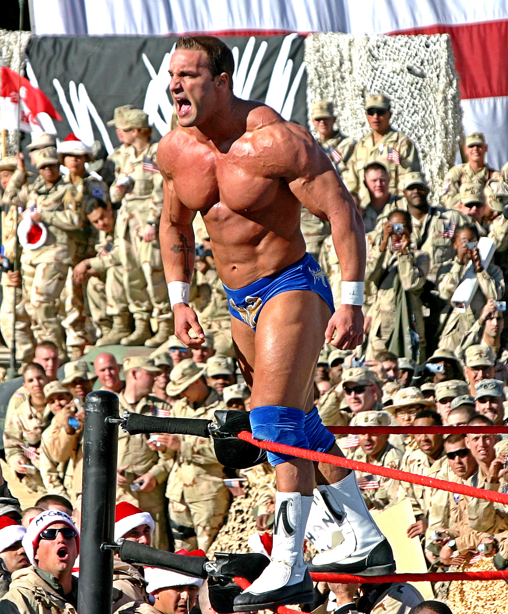 Professional wrestling entertainment: World Wrestling Entertainment's "Tribute to the Troops".